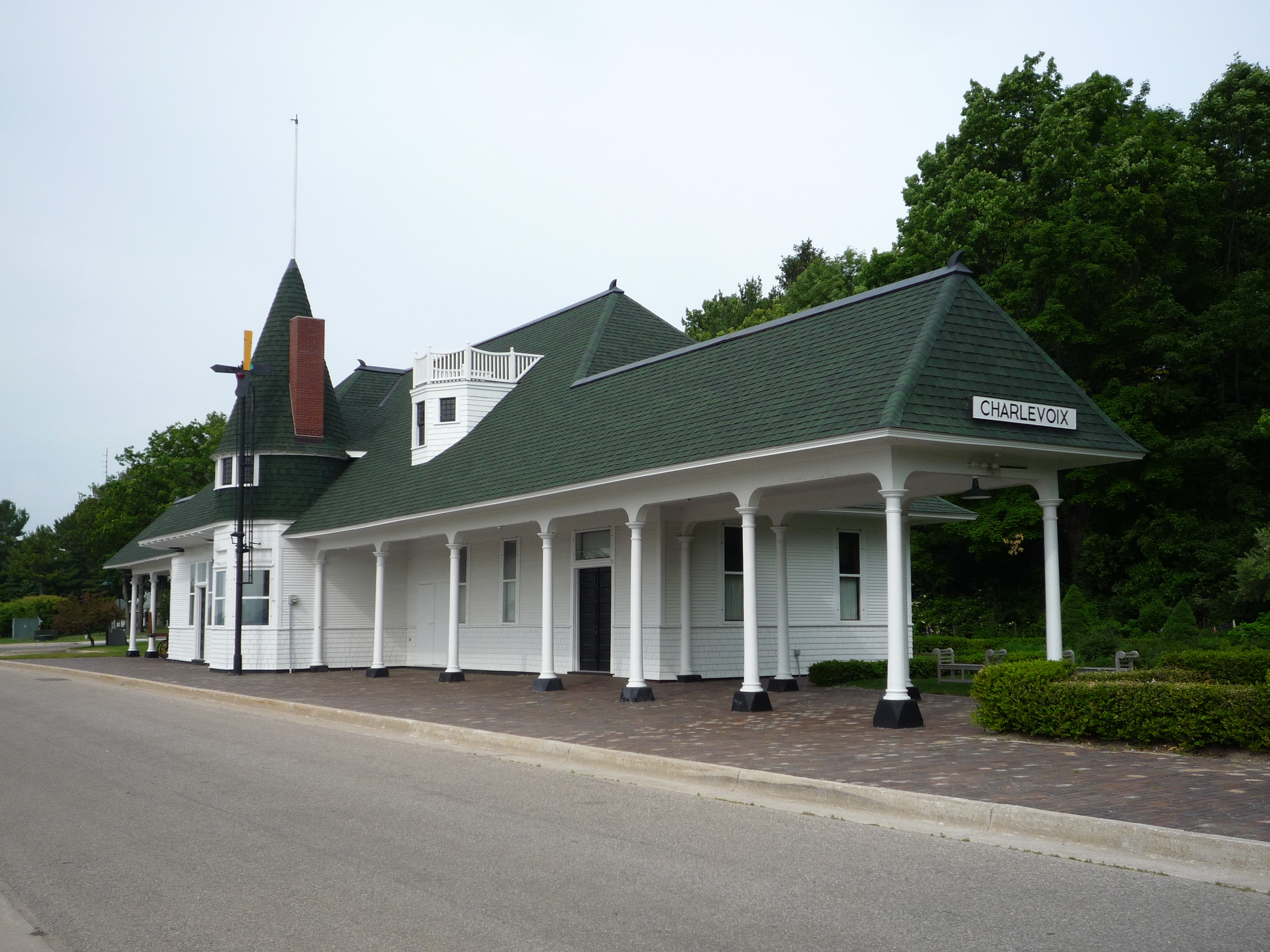 The Charlevoix Railroad Station, now used as the Charlevoix Depot Museum, Charlevoix, Michigan, USA.